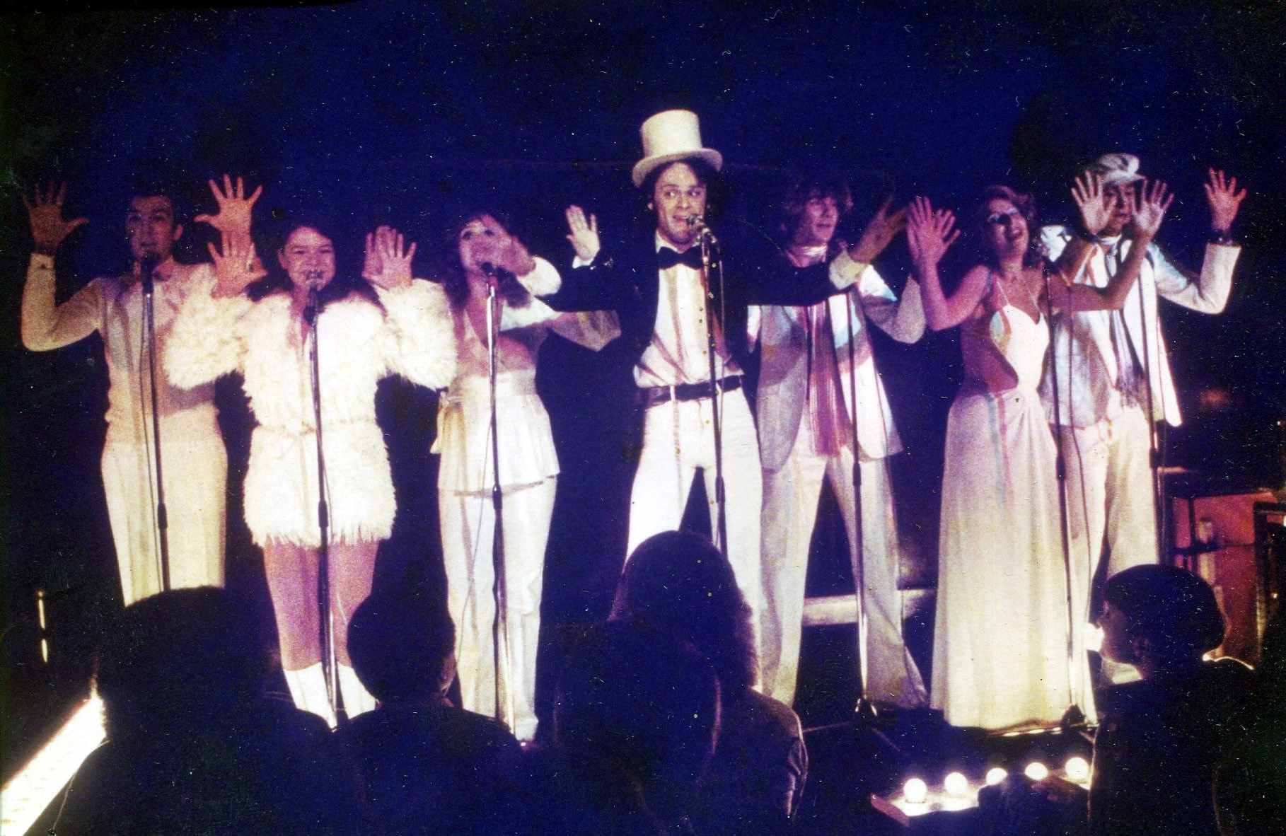 AlexCab ensemble (l-r: Thotte Dellert, Agneta LIndén, Eva Nor-Forsberg, Lars Jacob, Pontus Platin, Mia Adolphson & Göran Rydh), as released by image creator Lars Jacob ProdPlace: Alexandra's, Biblioteksgatan 5, Stockholm, Sweden